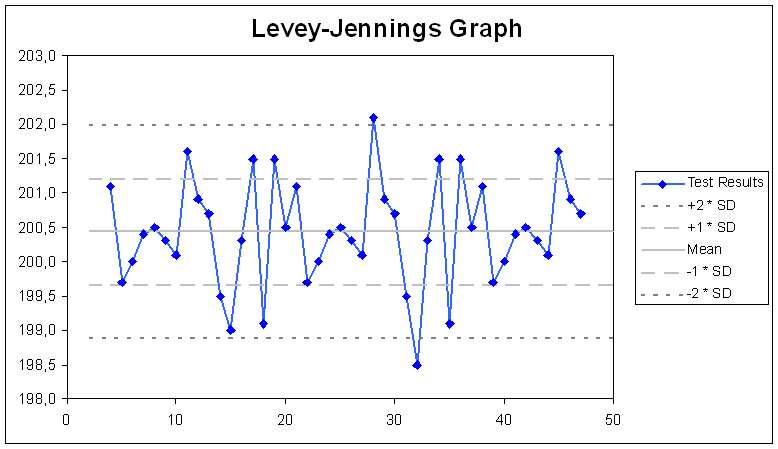 Made myself, using Microsoft Excel 2003 with random data.